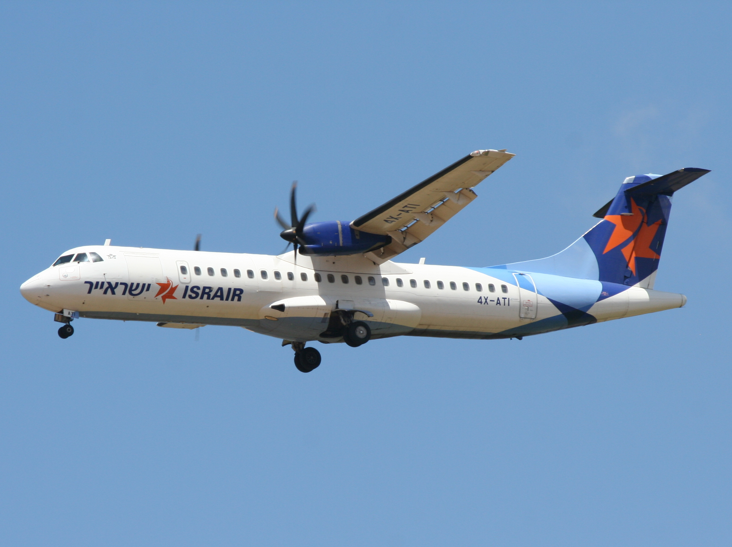 Landing at Ben Gurion International airport.